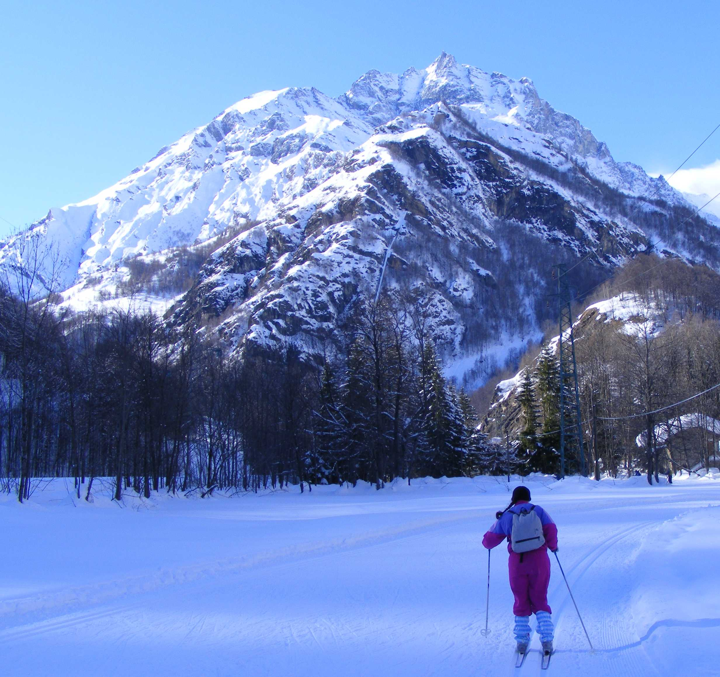 Mount Lera from Usseglio (Italy, Piedmont)